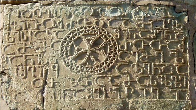 One of the earliest surviving examples of the Georgian alphabet from the Bolnisi Sioni Church in the south of Georgia. ႵႤႣႧႤႮႨႱႩႭႮႭႱႨႩႰႤႡႭ ჃႪႨႧႭჃႰႧႣႠႠႫႠႱႤႩ ႪႤႱႨႠႱႠ ႸႨႬႠႸႤႬႣ ႠႫႨႫႠ ႰႧႧႠჃ ႷႠႬႨႱႫ ႺႤႫႤႪ ႬႨႸႤႨႼႷ ႠႪႤႬႣႠ ႫႸႰႭႫႤႪႧႠႠႫႠႱႤႩႪႤ ႱႨႠႱႠႸႨႬႠႸႤႾႤႼႨႤ ႨႨ Modern Georgian: ქედთეპისკოპოსიკრებო ჳლითოჳრთდაამასეკ ლესიასა შინაშენდ ამიმა რთთაჳ ყანისმ ცემელ ნიშეიწყ ალენდა მშრომელთაამასეკლე სიასაშინაშეხეწიე იი ("ქრისტე დავით ეპისკოპოსი კრებულითურთ და ამას ეკლესიასა შინა შენდა მიმართ თაჳყანისმცემელნი შეიწყალენ და მშრომელთა ამას ეკლესიასა შინა შეხეწიე ი ი.")